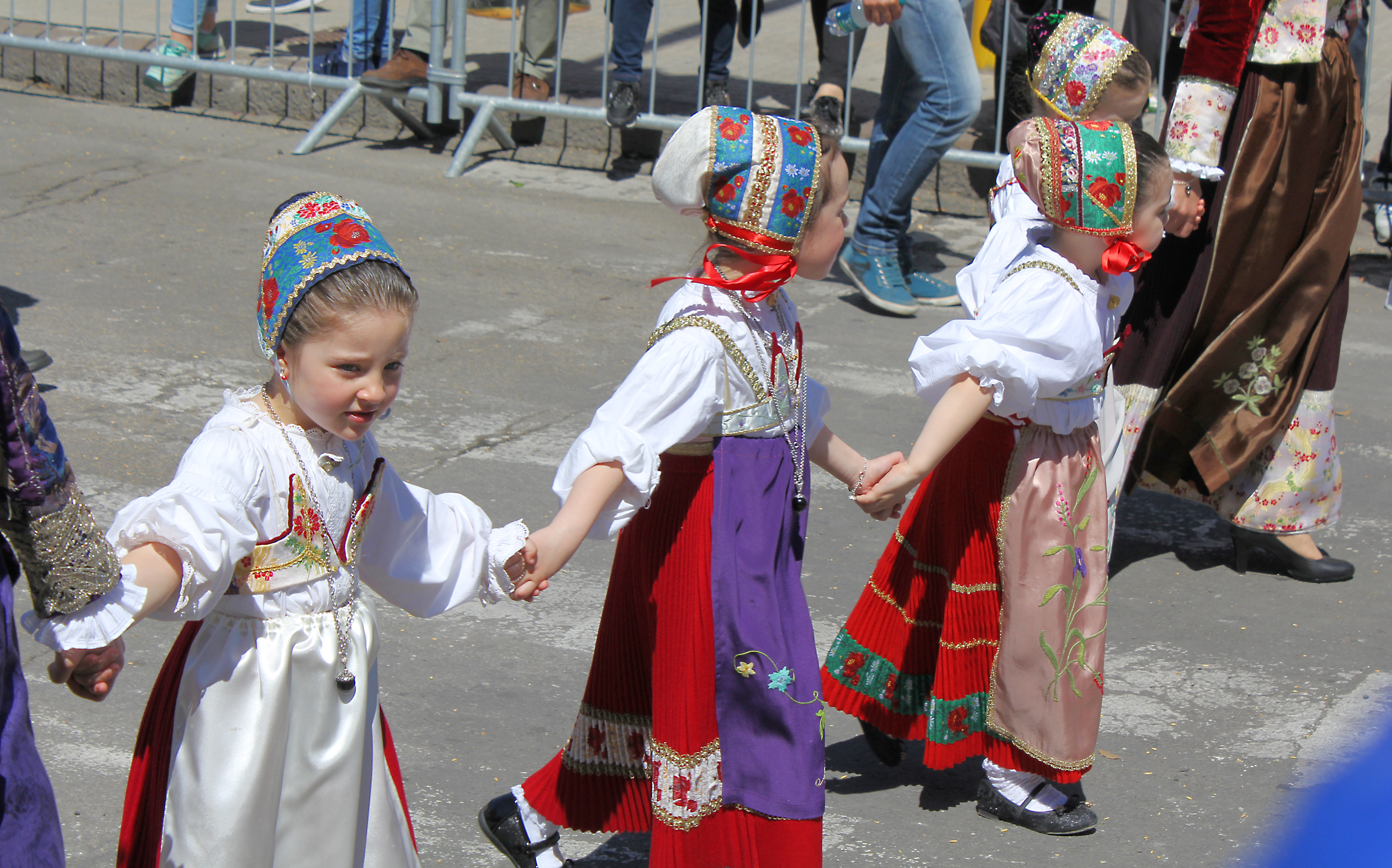 Sardinian Cavalcade Festival, 2016 Folk Costumes of Sardinia